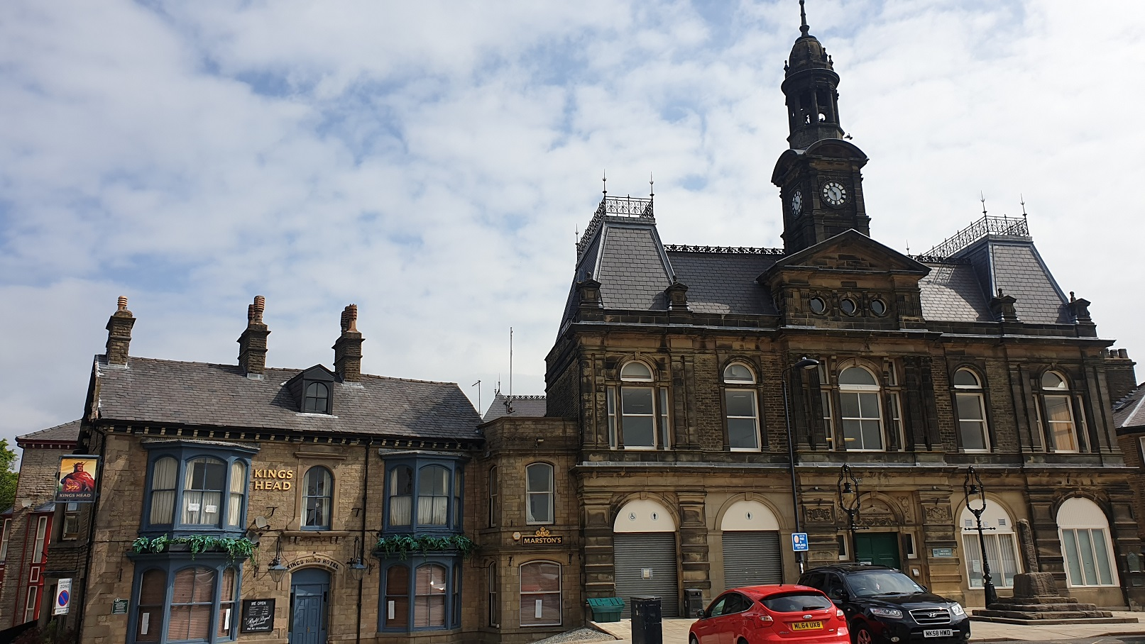 Buxton Town Hall designed by William Pollard